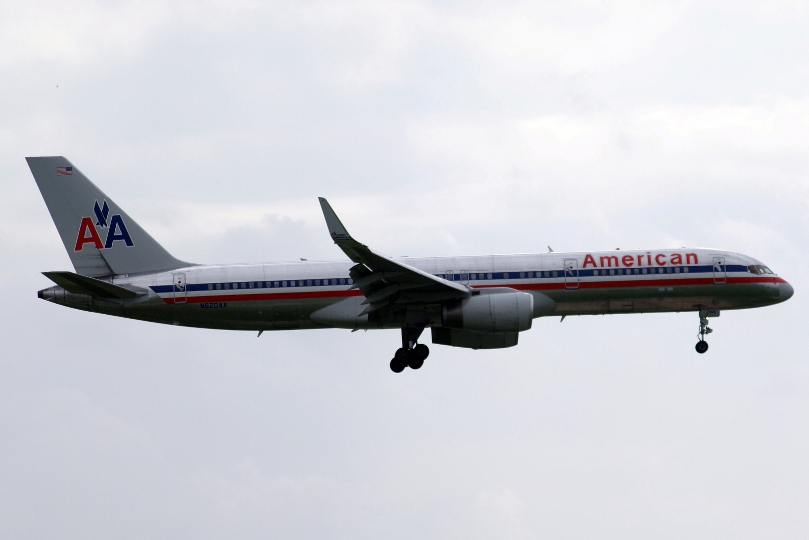 Boeing 757-223